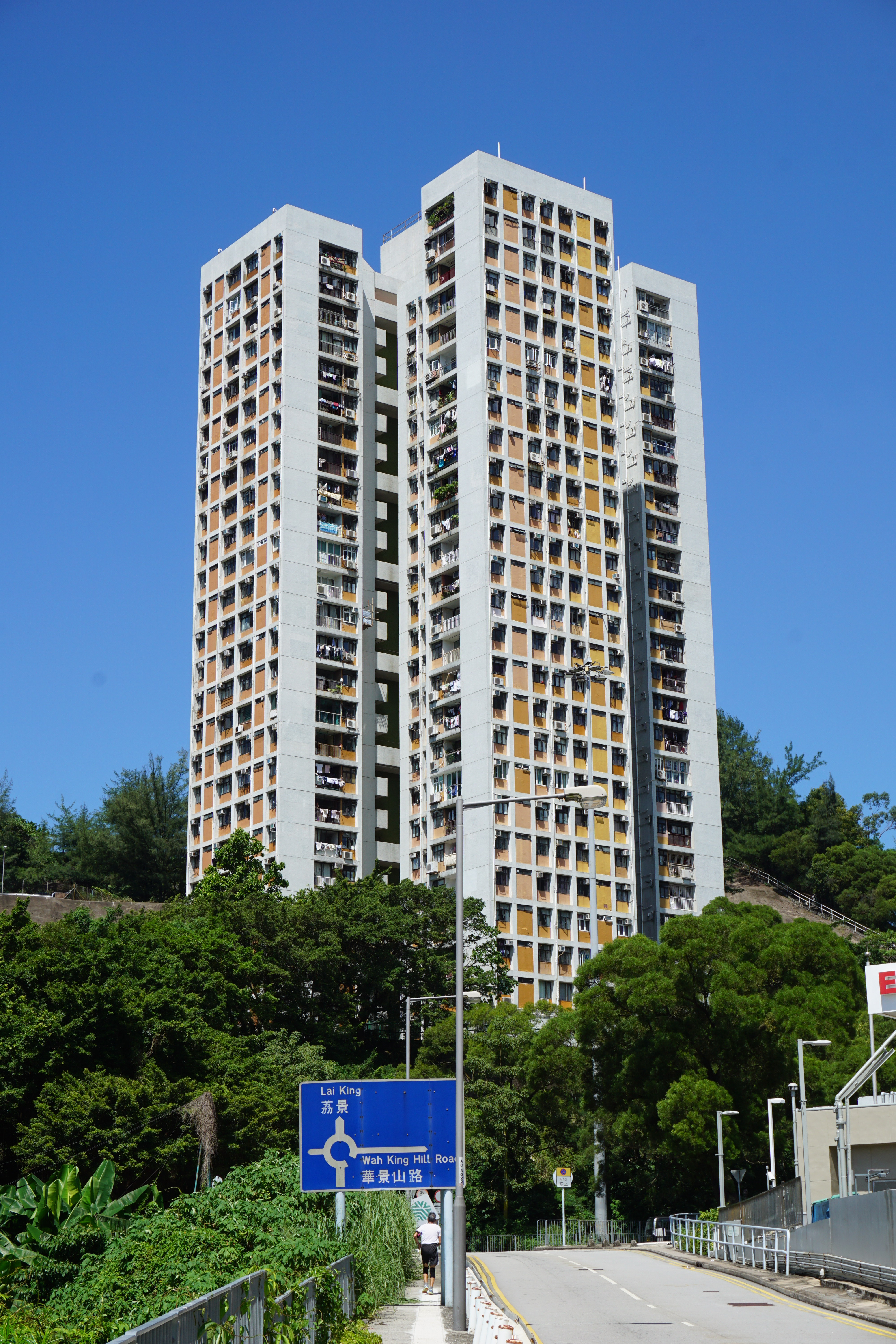 Tsui Yiu Court in Lai King, Hong Kong.